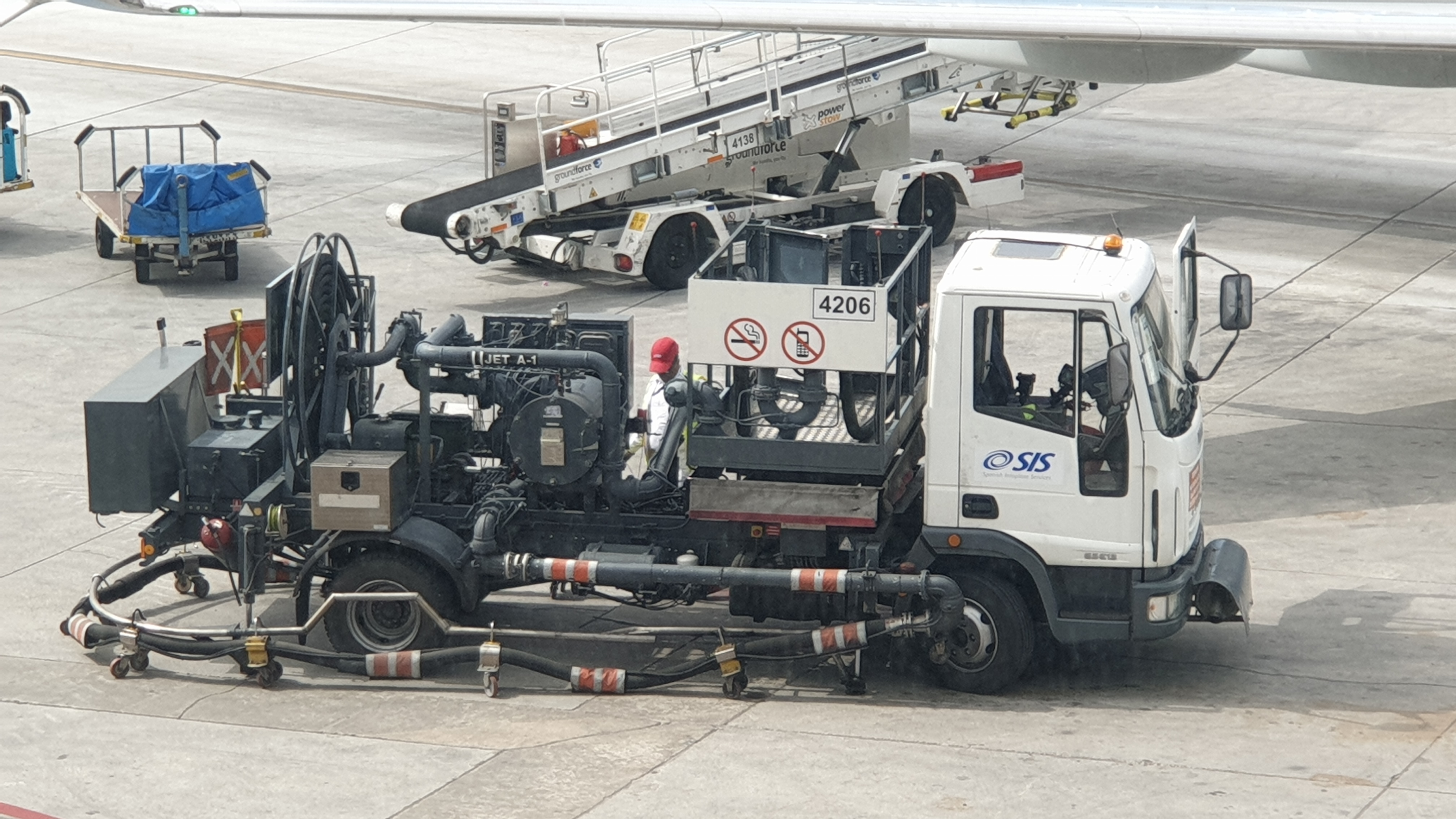 Airport hydrant truck (Jet A1) in Malaga Airport (AGP)